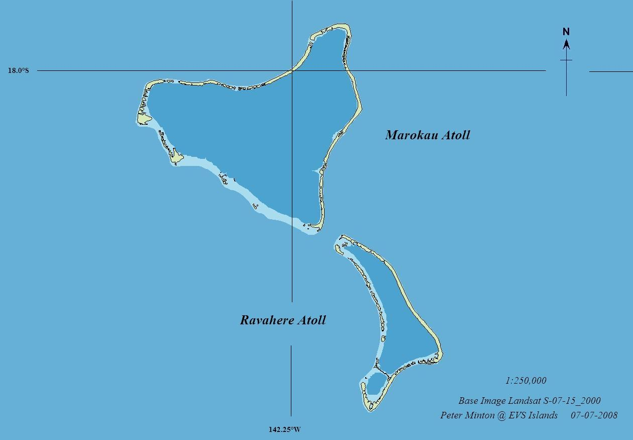 Marokau and Ravahere Atolls, Tuamotu Archipelago, FP - EVS Precison Map (1:250,000)